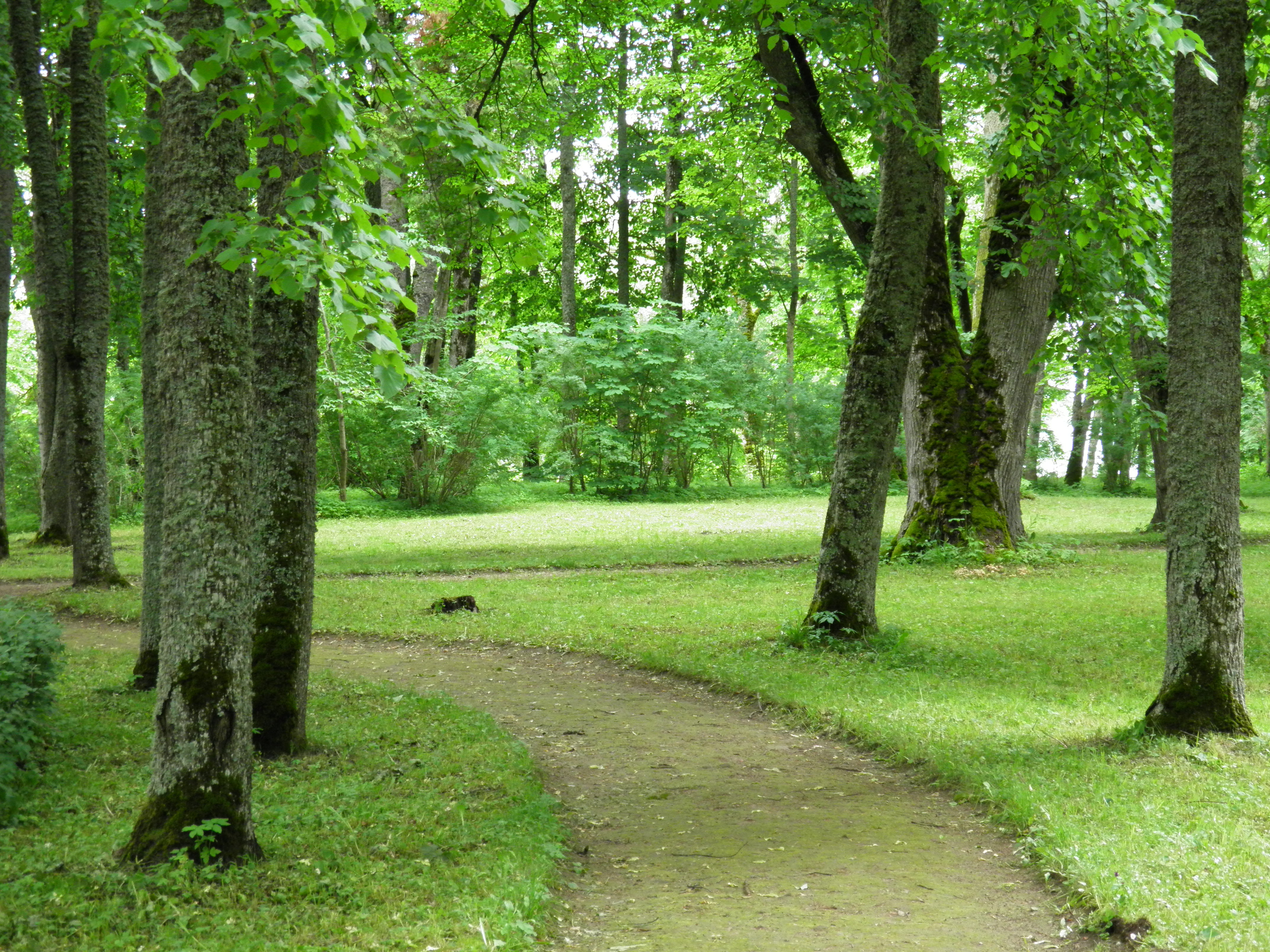 park